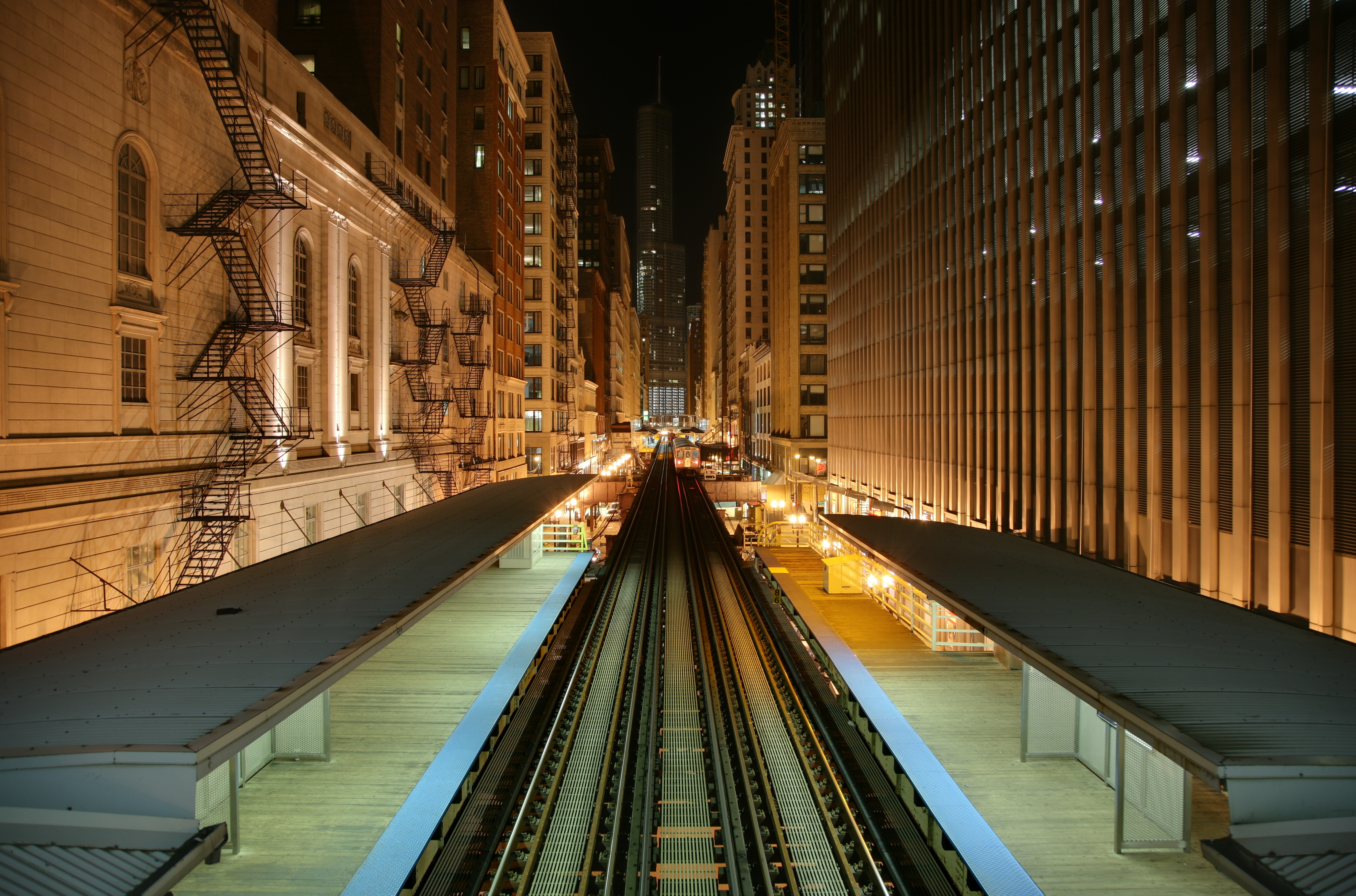 Looking north from Chicago 'L' station Adams and Wabash